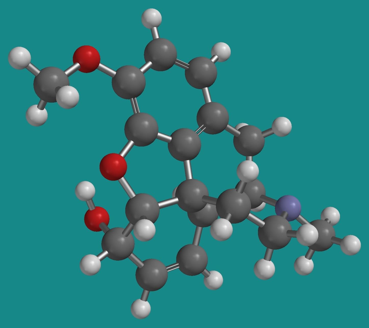 Molécule of codéine